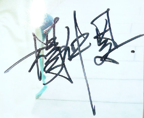 This is Tony Yeung's signature.